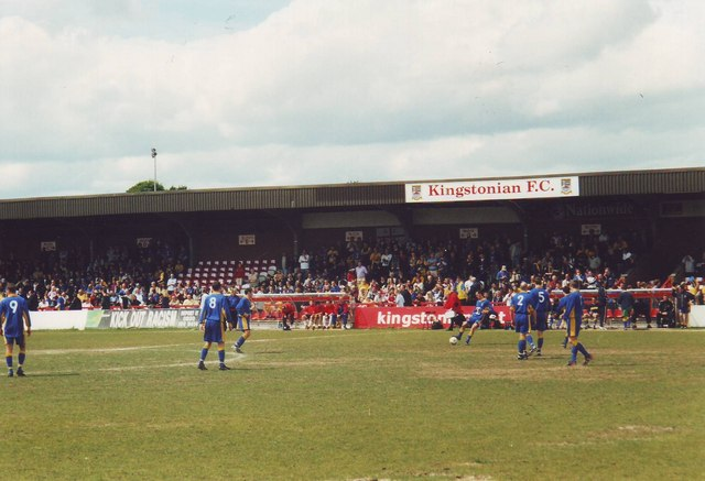 Kingsmeadow Stadium, Kingston upon Thames, near to Kingston Upon Thames, Great Britain. The players of AFC Wimbledon are warming up for the last game of the season against Raynes Park Vale. This was the Dons' first season as a 'reformed' club. They won 5 - 0 on the day with a crowd of over 4000 present, though they had to wait another year to get promotion into the Ryman League. At the time of the photo, Kingsmeadow was also the home of Kingstonian FC. It still is, but the Dons now own the stadium.